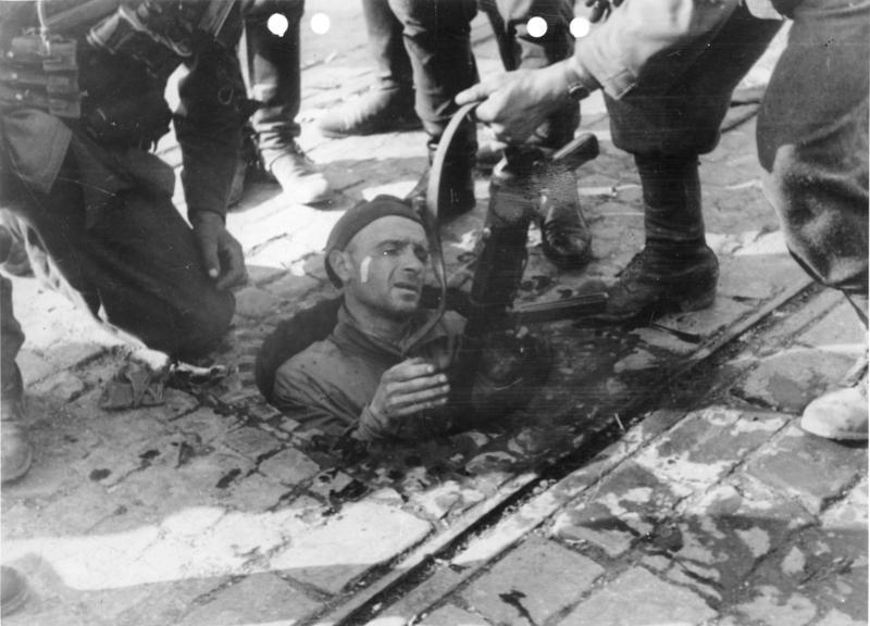 Warsaw Uprising: This insurgent from Mokotów district, is coming out of sewers and surrendering to Germans.